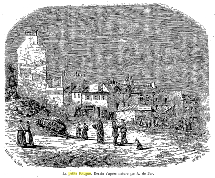 Gravure de la Petite-Pologne de Paris